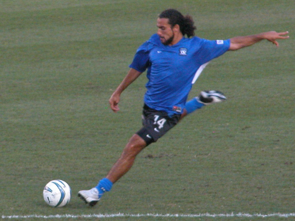 Dwayne De Rosario at pre-game warmups 7/4/2004 at the home depot center.